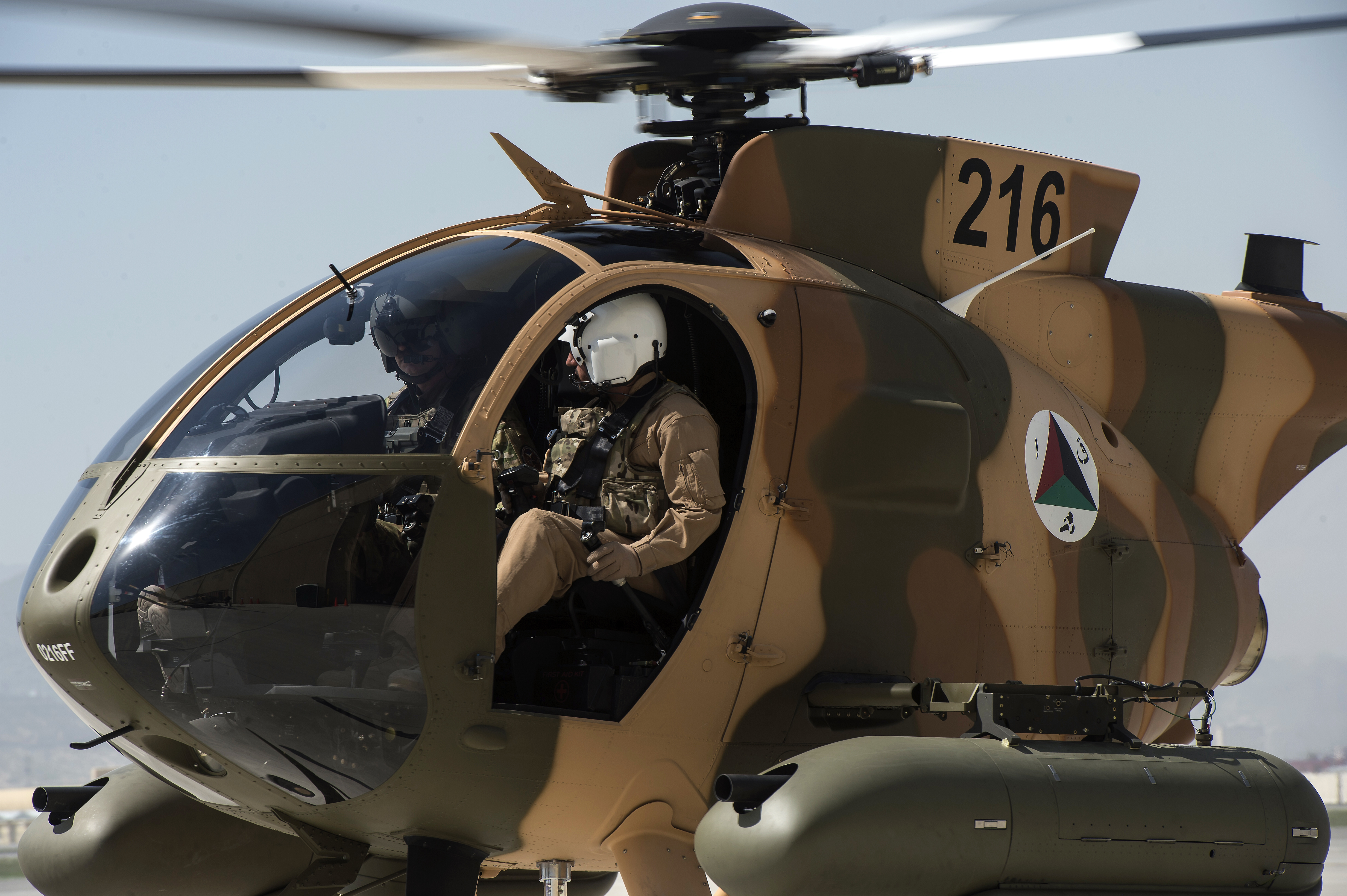 An Afghan air force MD-530F Cayuse Warrior helicopter pilot and his adviser, from the Train, Advise, Assist Command - Air, take off during rehearsal of the official "Roll-Out" ceremony for the MD-530F, April 8, 2015, at the Kabul, Afghanistan, International Airport. The new aircraft will be armed with two FN M3P .50-caliber machine guns. This will increase the Afghans' close air support capability by six times. (U.S. Air Force Photo by Staff Sgt. Perry Aston/Released)